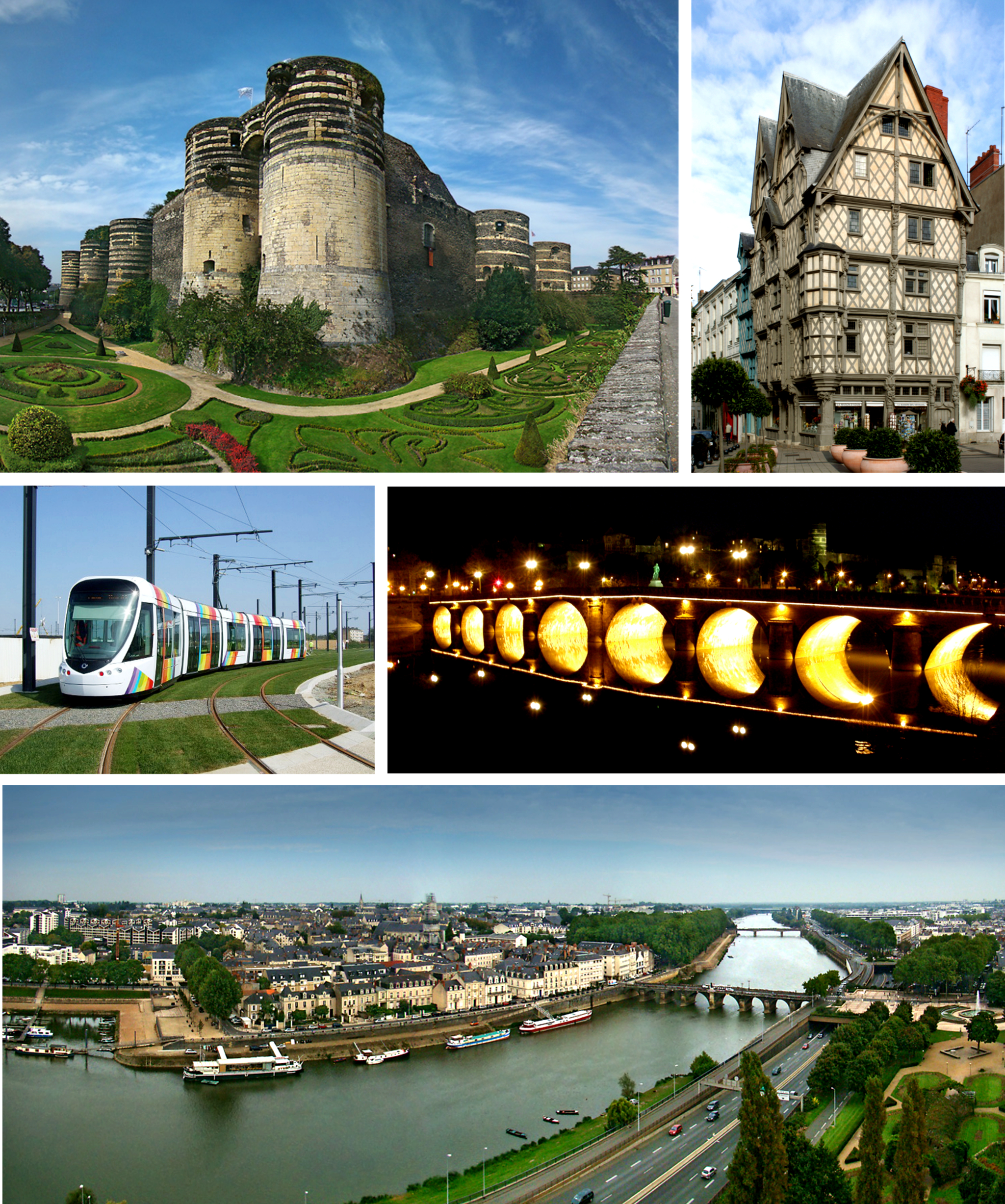 Various views of Angers, France. Top to bottom, clockwise: The castle, the "Maison d'Adam", the "pont de Verdun" by night, panorama of the Maine seen from the castle, a tram.